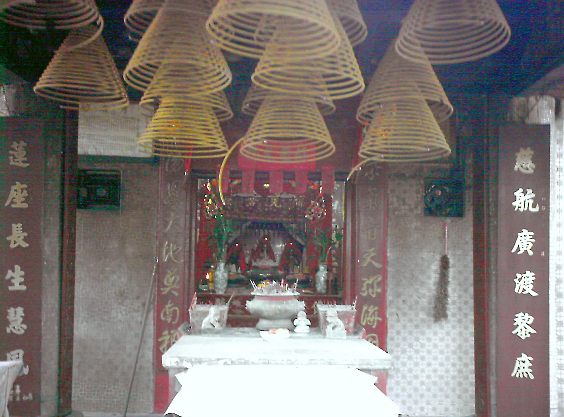 Tse Yeung Tung Door 中文（香港）: 紫陽洞佛堂的大殿門